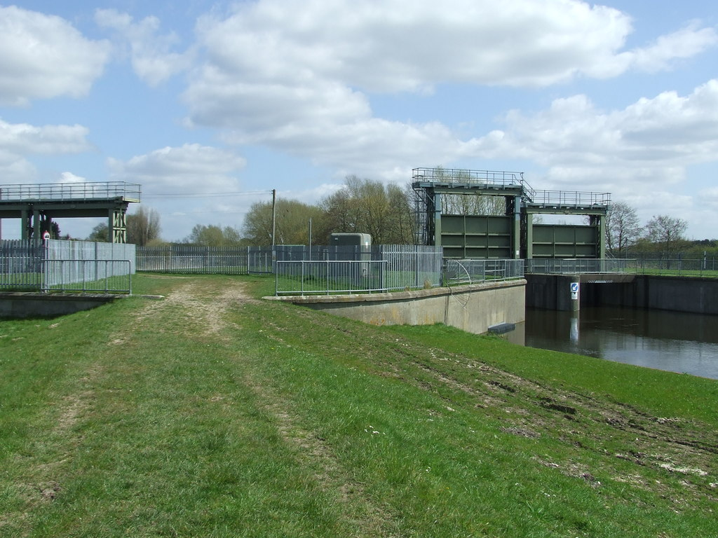 Sluices on the River Little Ouse, England. The sluice on the right allows the headwaters to feed into the main channel. That on the left diverts the headwaters into the Cut-off Channel, which carries them to Denver.